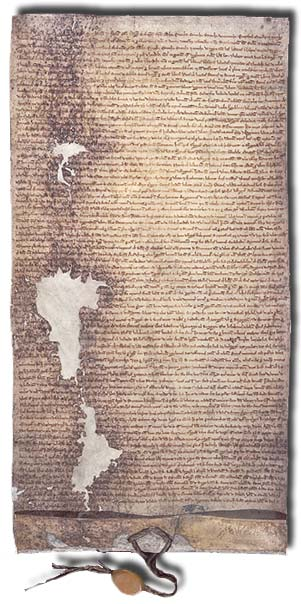 The 1225 version of Magna Carta issued by Henry III of England. This copy is in the National Archives (London), DL 10/71.